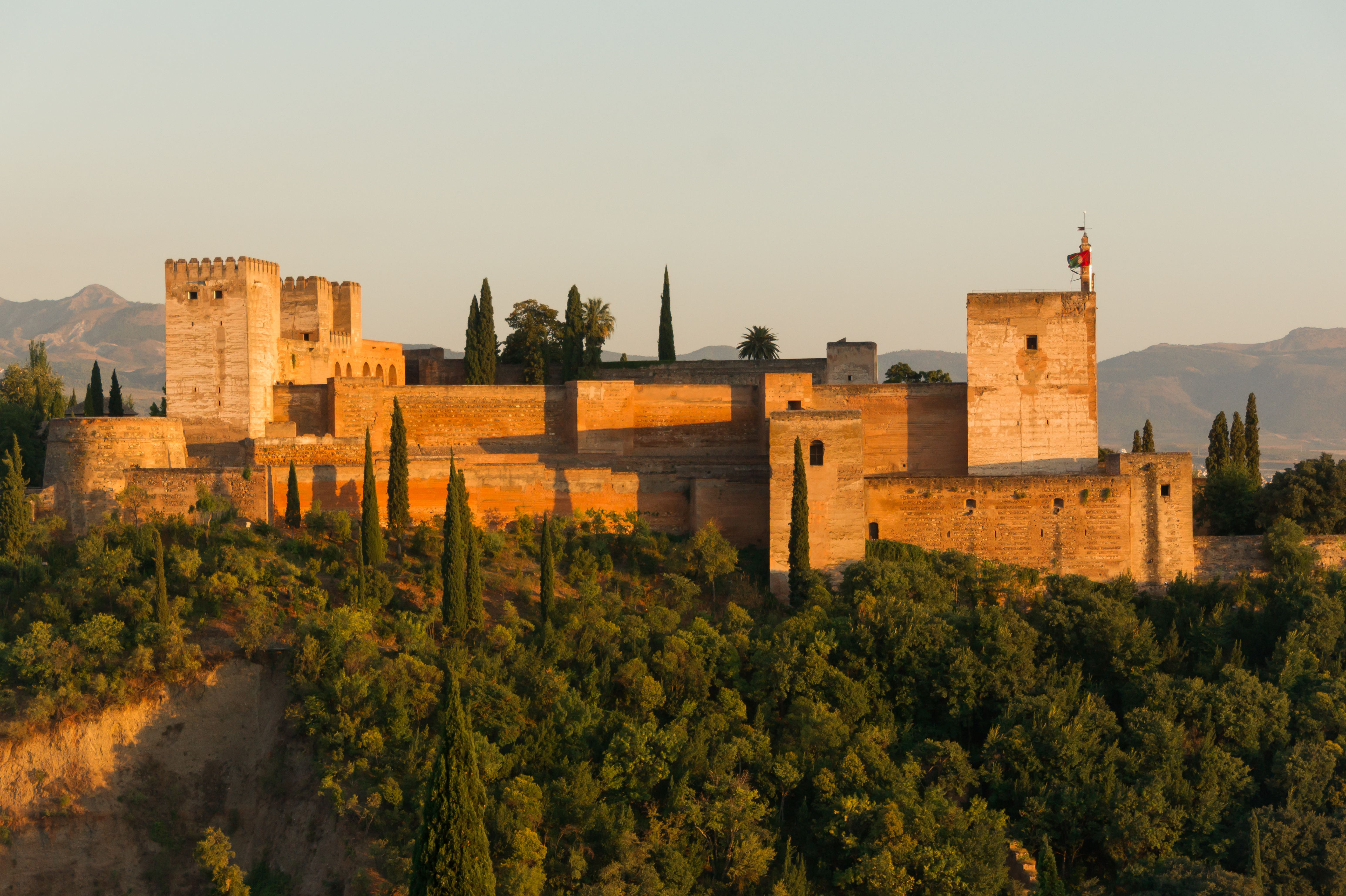 Alcazaba, Alhambra, Granada, Spain